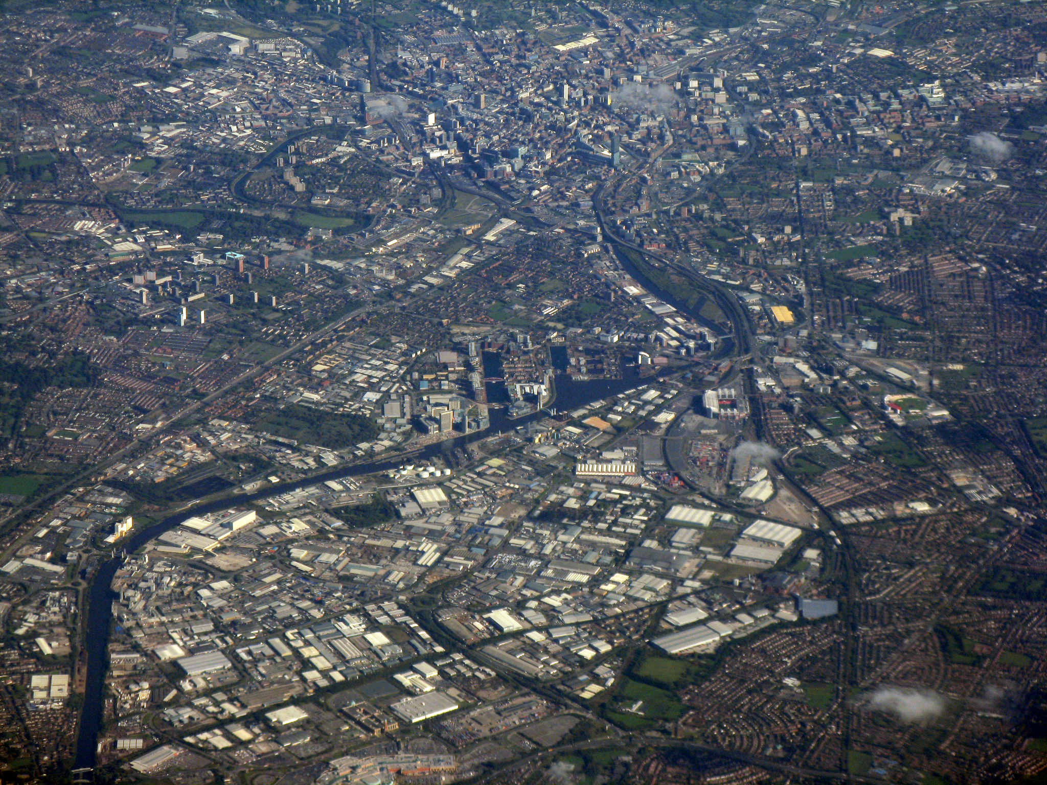 An aerial photograph of Manchester city centre (running along the top of the image), Salford (left half of the image) and Trafford (right half of the image), all of which are in Greater Manchester, England. Landmarks such as the bend in the River Irwell by Salford University, the Beetham Tower in Manchester city centre and Old Trafford in Stretford are all in this image. The docks of Salford Quays occupy the centre-part of this photograph.